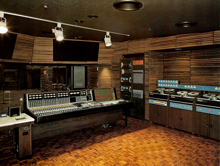 The No. 1 studio used between 1976 and 1986